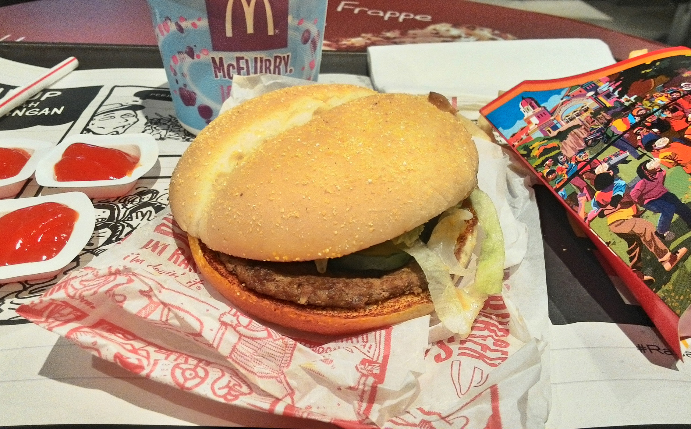 McDonald's Indonesia promo special menu; Burger Sate (satay burger). Limited promotion during the month of Indonesian Independence celebration in August 2016.